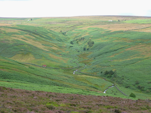 The valley of Burnhope Burn The view from Adam's Cow looking down the hillside to the confluence of Eudon Burn and Burnhope Burn, and up the valley towards Sandyford (left) in NY9647 and Belmount in NY9747.